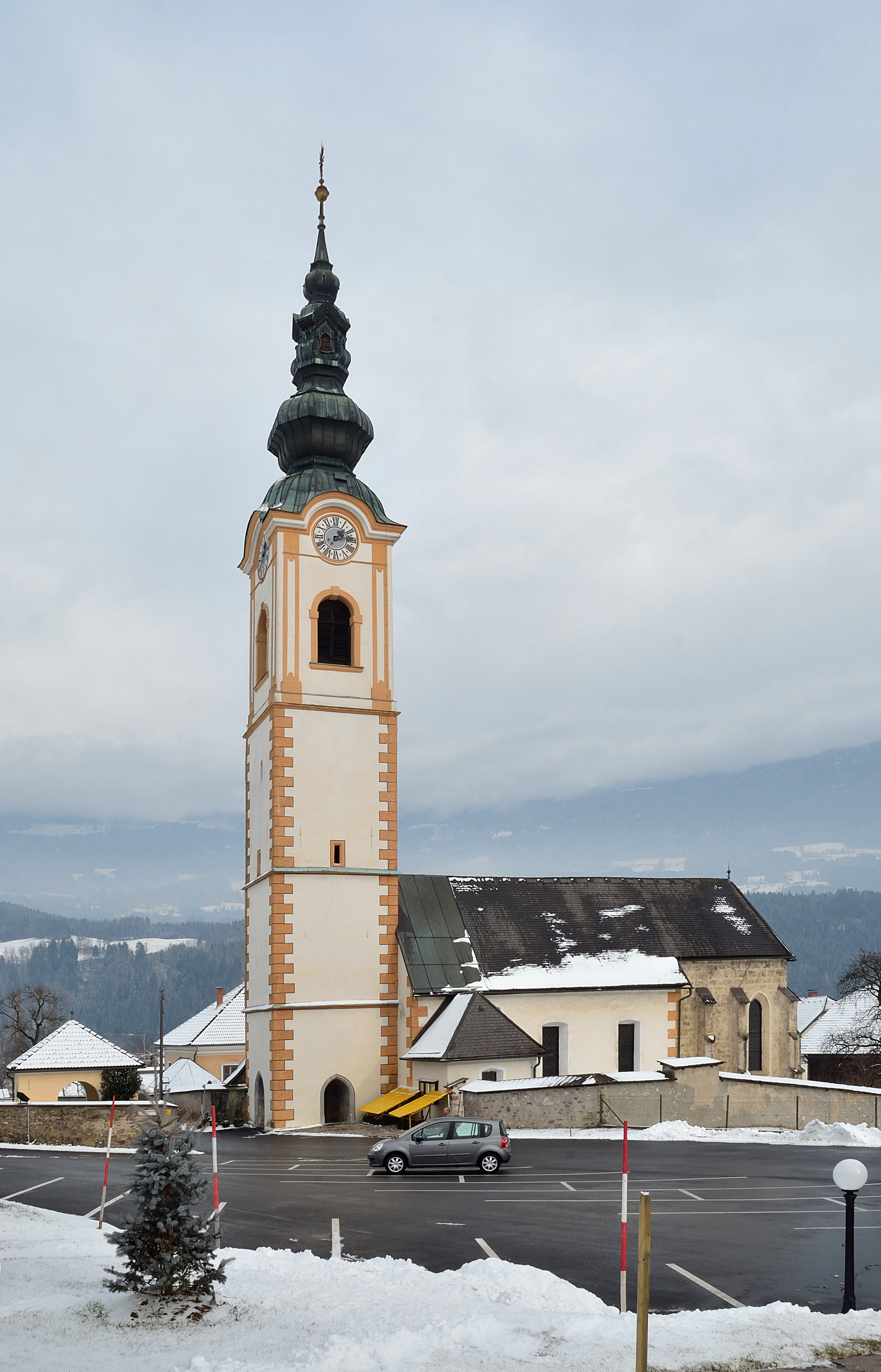 Parish church Feistritz an der Drau, municipality of Paternion, Carinthia.